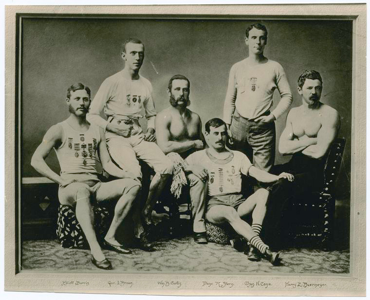 N.Y.A.C. Track Team, ~1876